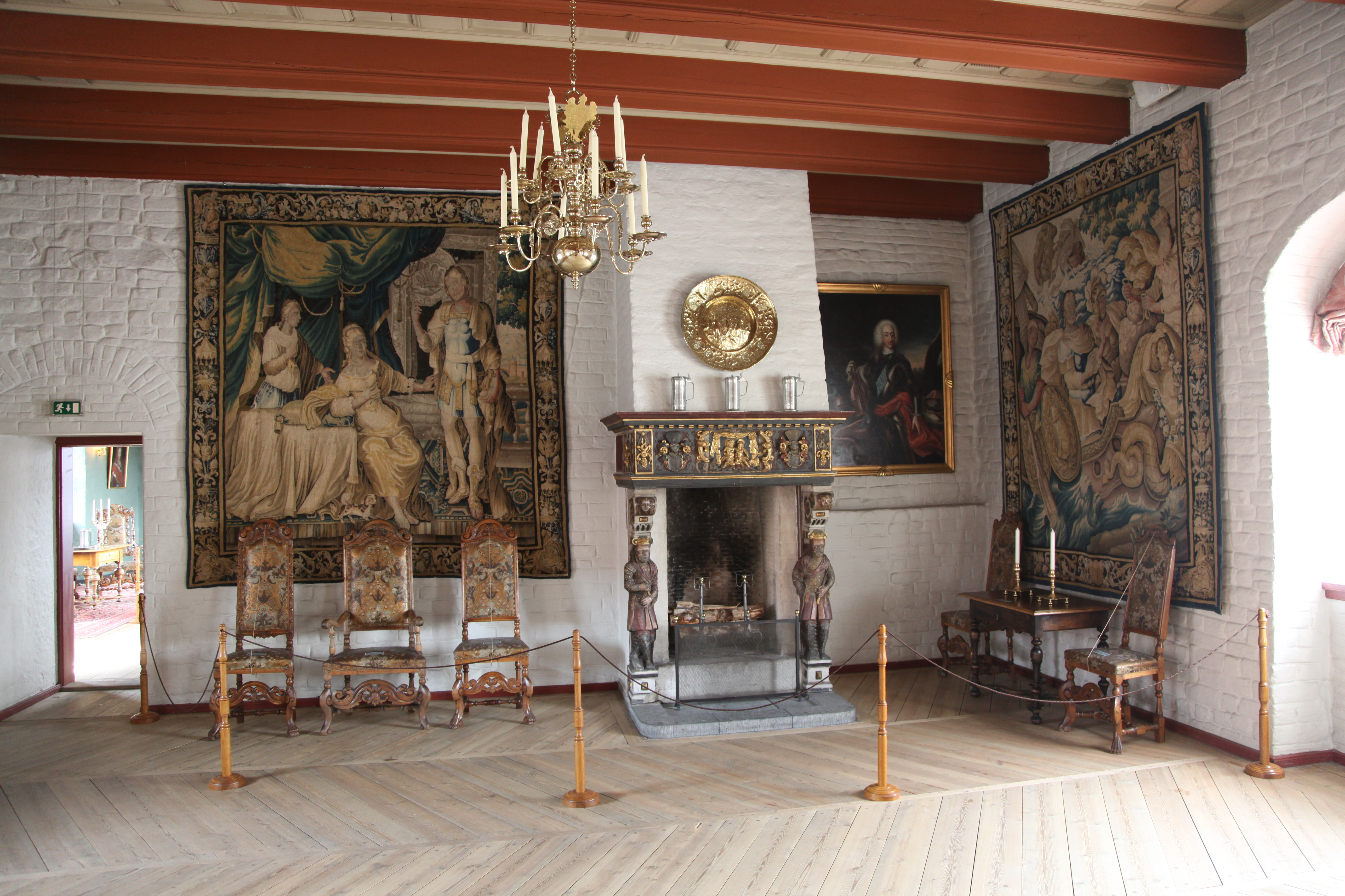 Akershus Castle. The Romerike Hall.